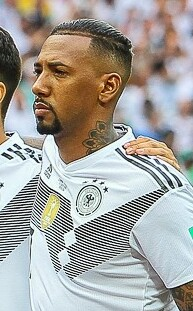 Germany national association football team